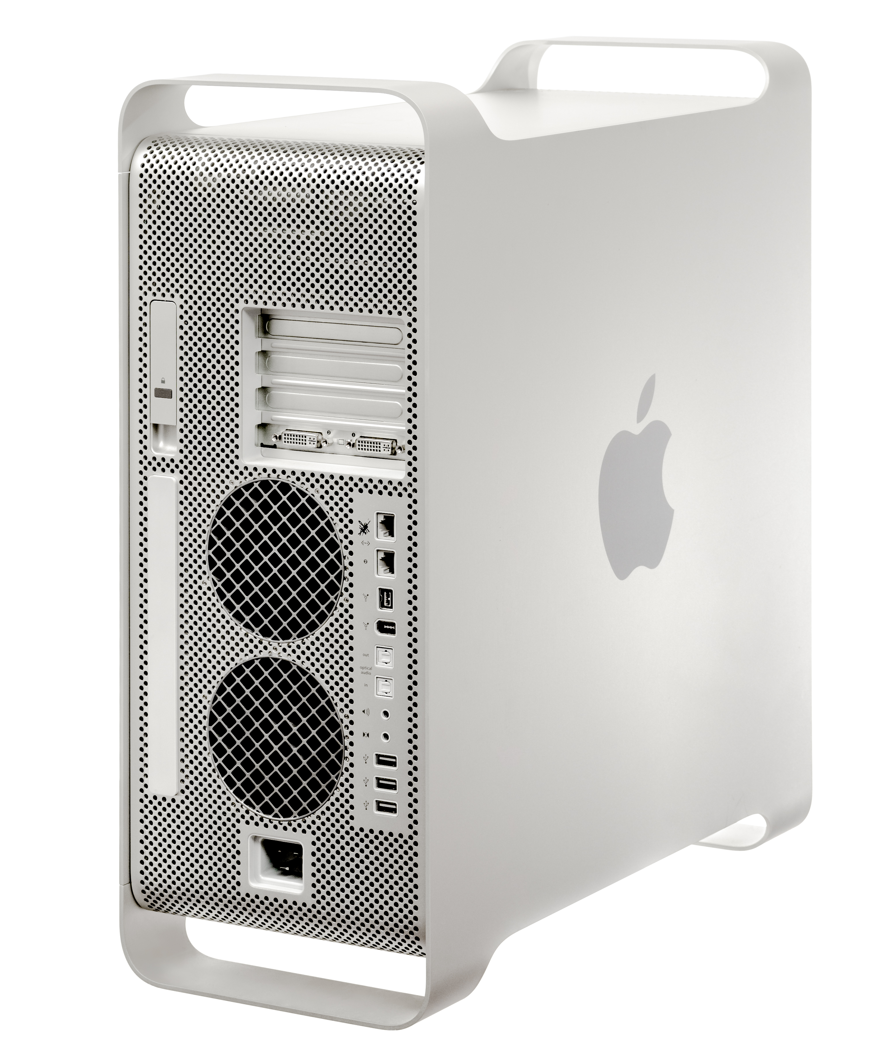 Apple Power Macintosh G5 Dual Core (2.3 GHz) Late 2005 – M9591LL/A.